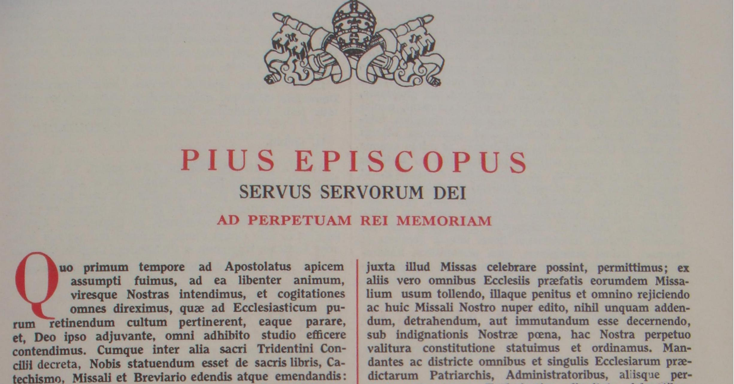 Detail of the 1570 bull Quo primum tempore of Pope St. Pius V reproduced in a 1956 Roman Missal.